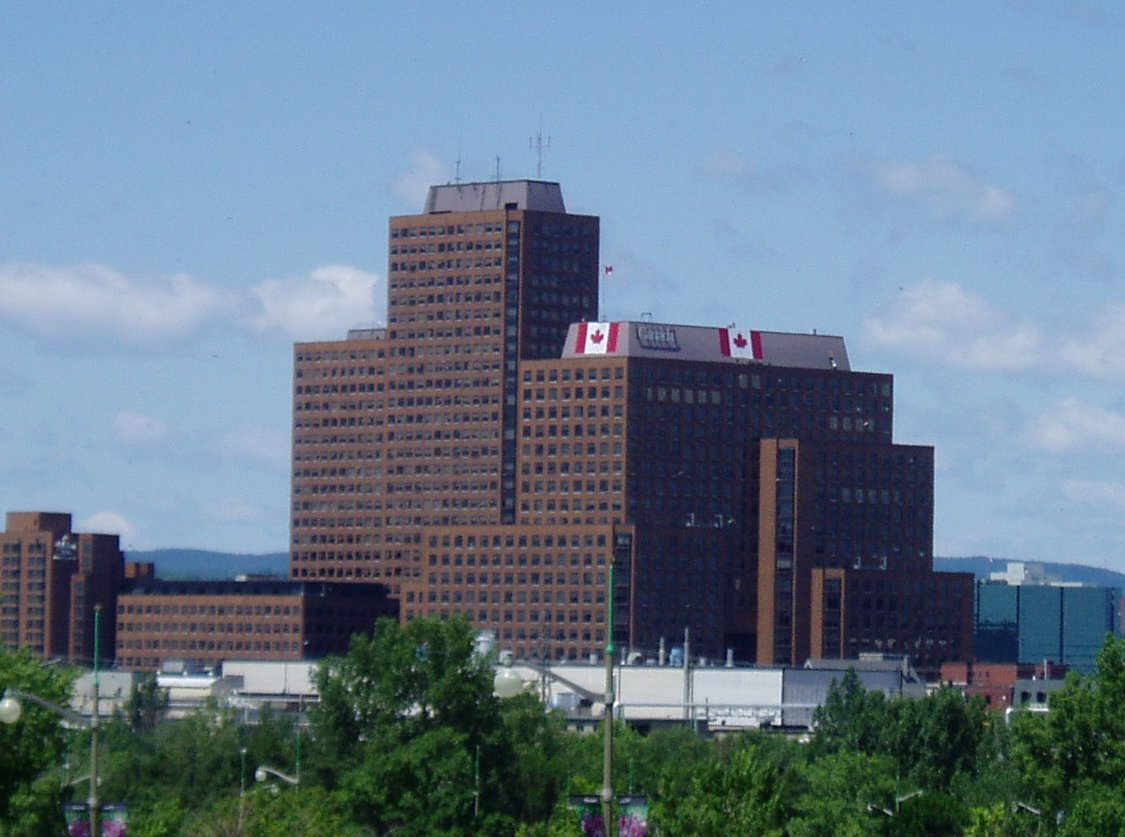 The headquarters of Canadian Heritage, Indian and Northern Affairs Canada, Canadian Transportation Agency, and Canadian Radio-television and Telecommunications Commission are located at Terrasses de la Chaudière